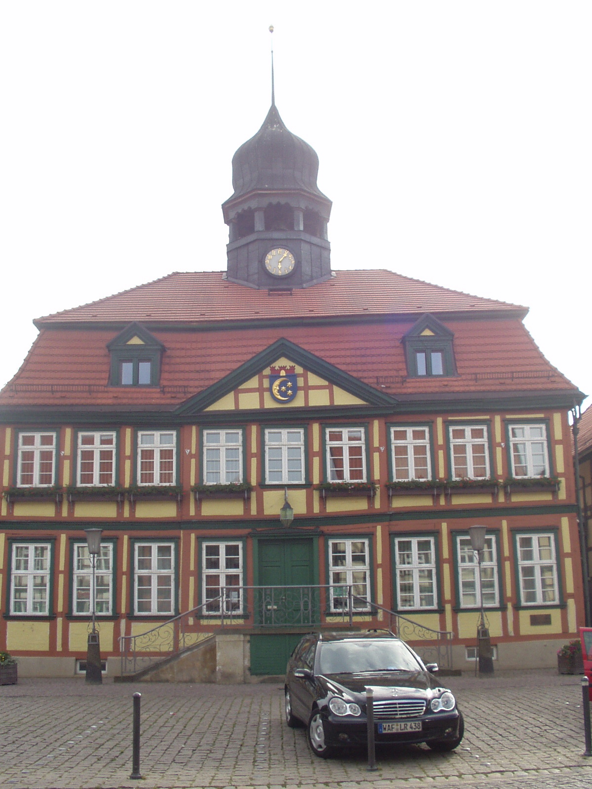 Grabow (Elde), Mecklenburg-Vorpommern, Germany, Cityhall